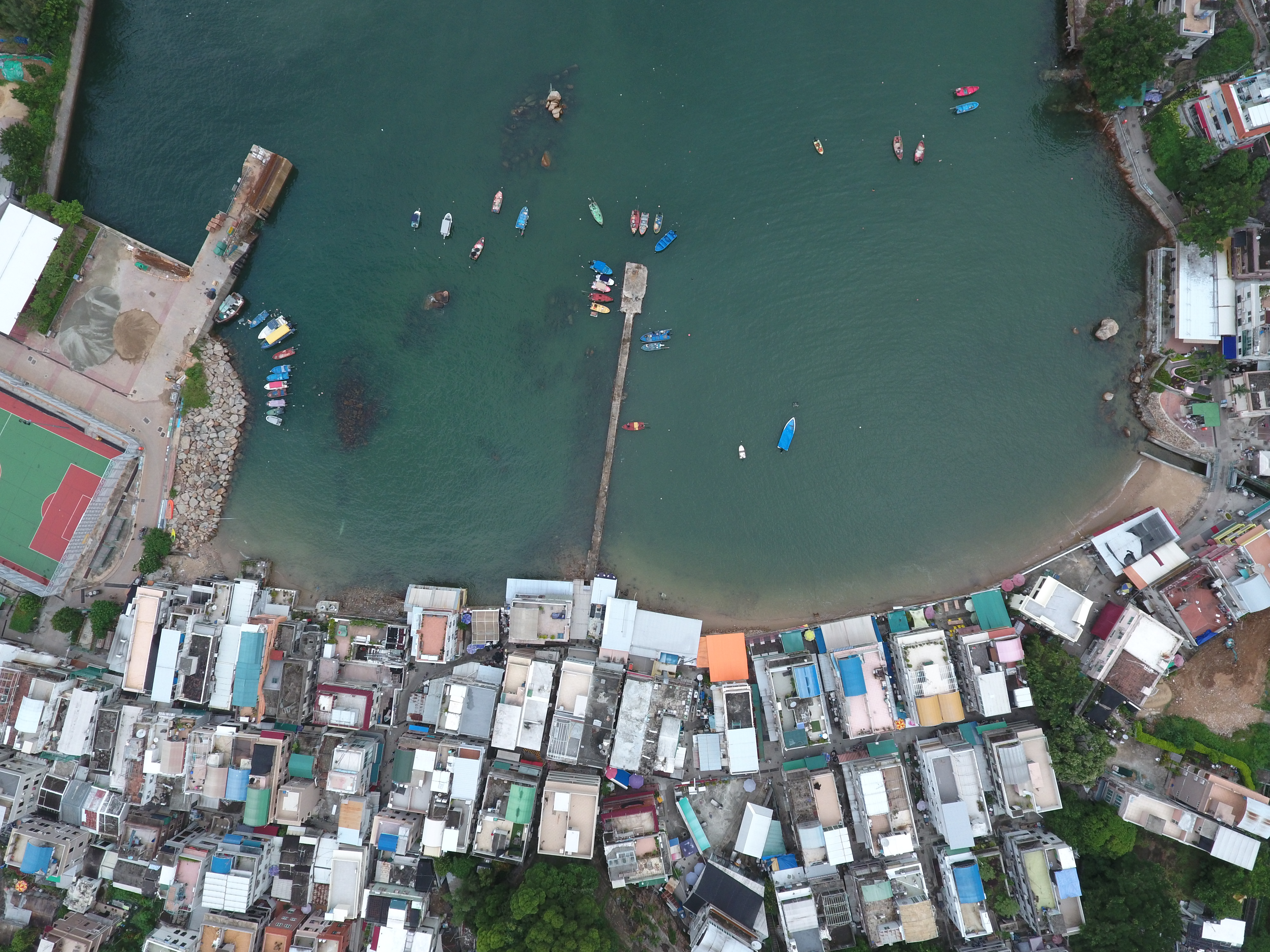 An aerial view of Main Street and surrounding areas in Yeung Shue Wang